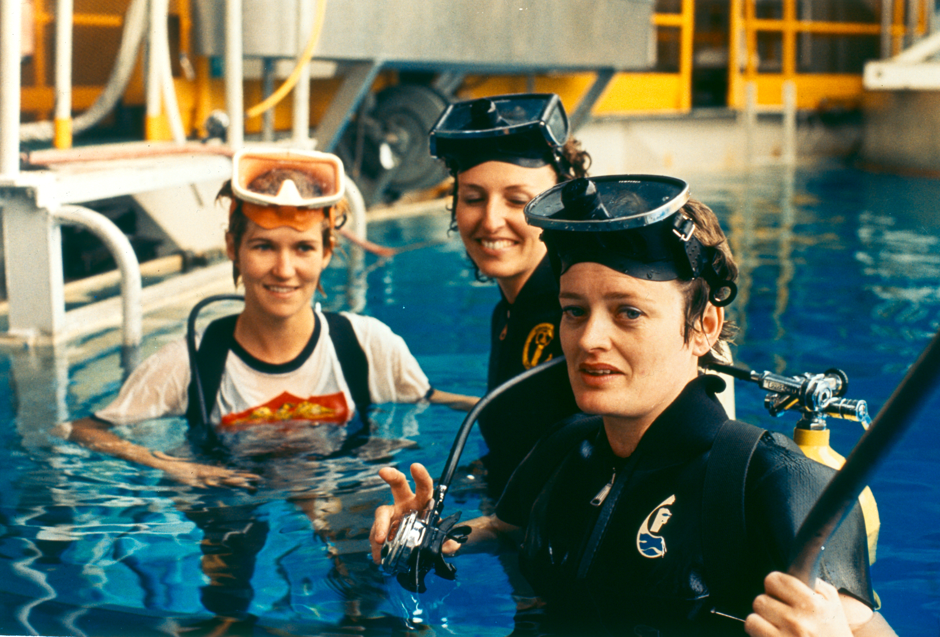 Dr. Mary Johnston, Carolyn Griner and Dr. Ann Whitaker (left to right), scientists at the Marshall Space Flight Center, complete a training session in the MSFC's Neutral Buoyancy Simulator, a facility used to simulate weightlessness. The scuba diving is part of special training the three took to better qualify them for their duties of designing experiments on materials processing in space. The training increased their understanding of the problems associated with doing experiments in space, such as aboard Spacelab. Dr. Johnston specializes in metallurgical engineering, Carolyn Griner in materials sciences, and Ann Whitaker in lubrication and surface physics. Carolyn Griner continued her career at MSFC, serving as the director of the Mission Operations Laboratory. In 1994 she was appointed as Deputy Director of MSFC, and for 9 months in 1998 served as acting Director. She retired from NASA in December 2000. Over a 16-year period Dr. Ann Whitaker served at NASA as chief of the Physical Sciences Branch, the Engineering Physics Division, and the Project and Environmental Engineering Division. In 1995 she served in several leadership positions in Marshall's Science and Engineering Directorate. In September 2001, Dr. Whitaker was named director of the Science Directorate at MSFC.